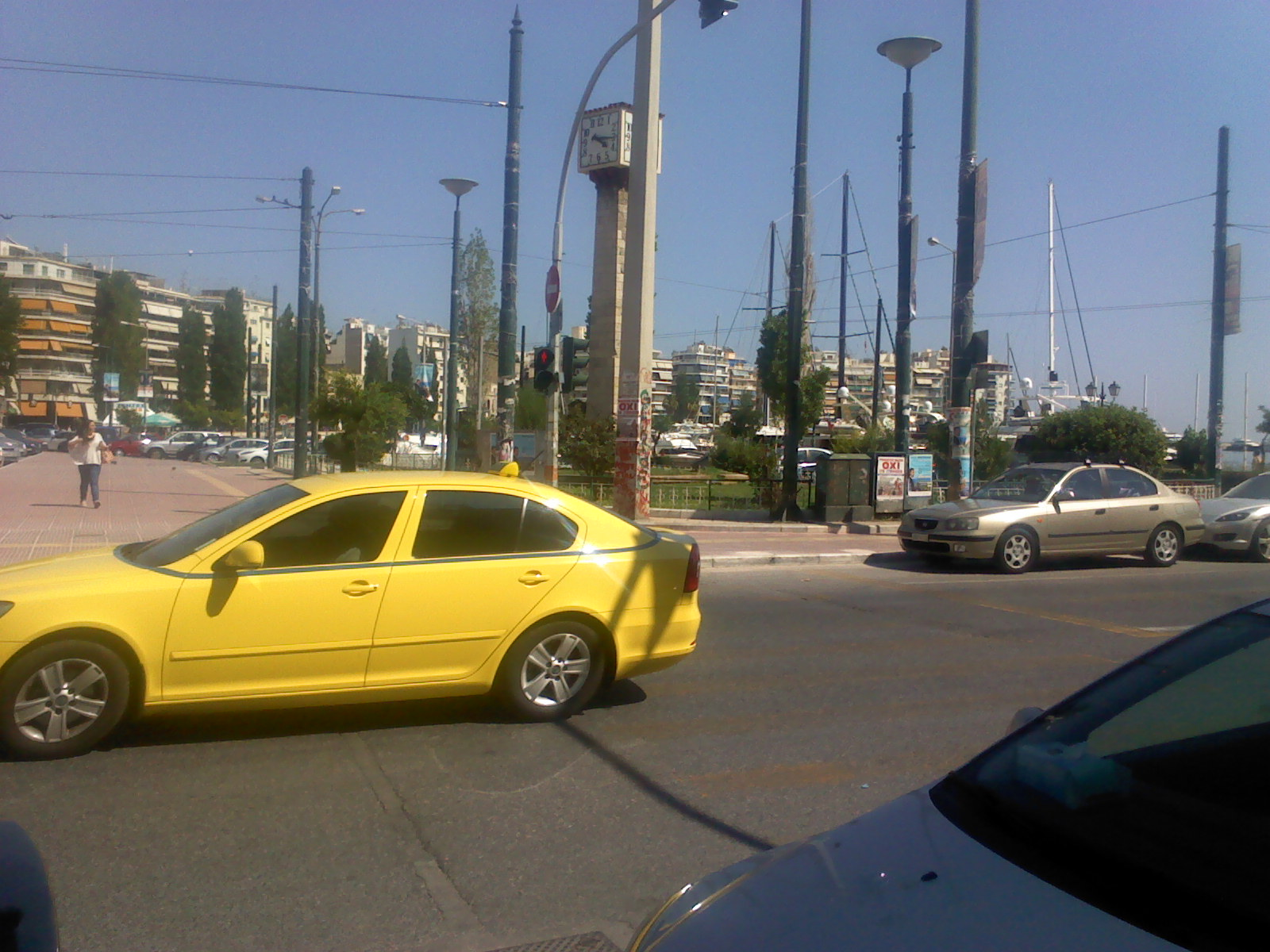 The high stone clock of Zea